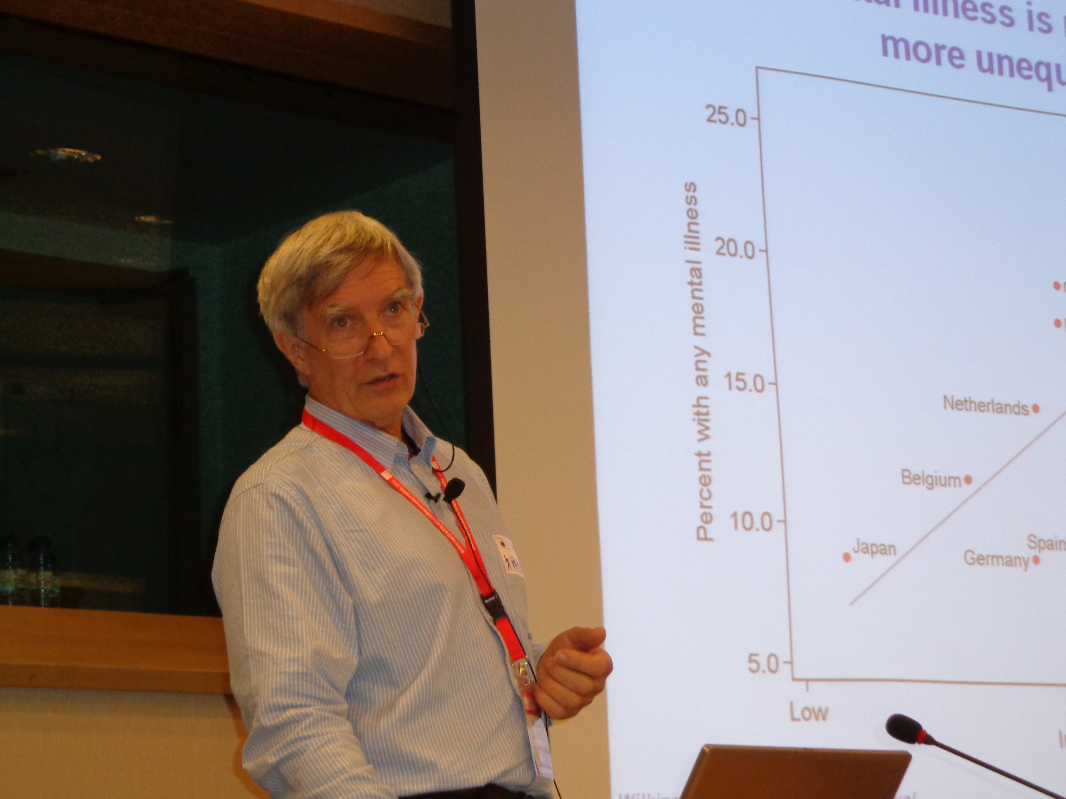 Richard G. Wilkinson in Brussels at the "Achieving Europe" conference